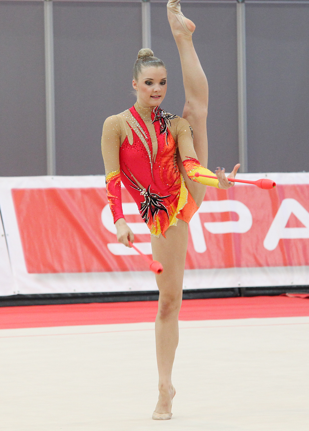 Grand Prix Rhythmic Gymnastics in Austria (Hard) 2012. Laura Jung Rhythmische Gymnastin GER.